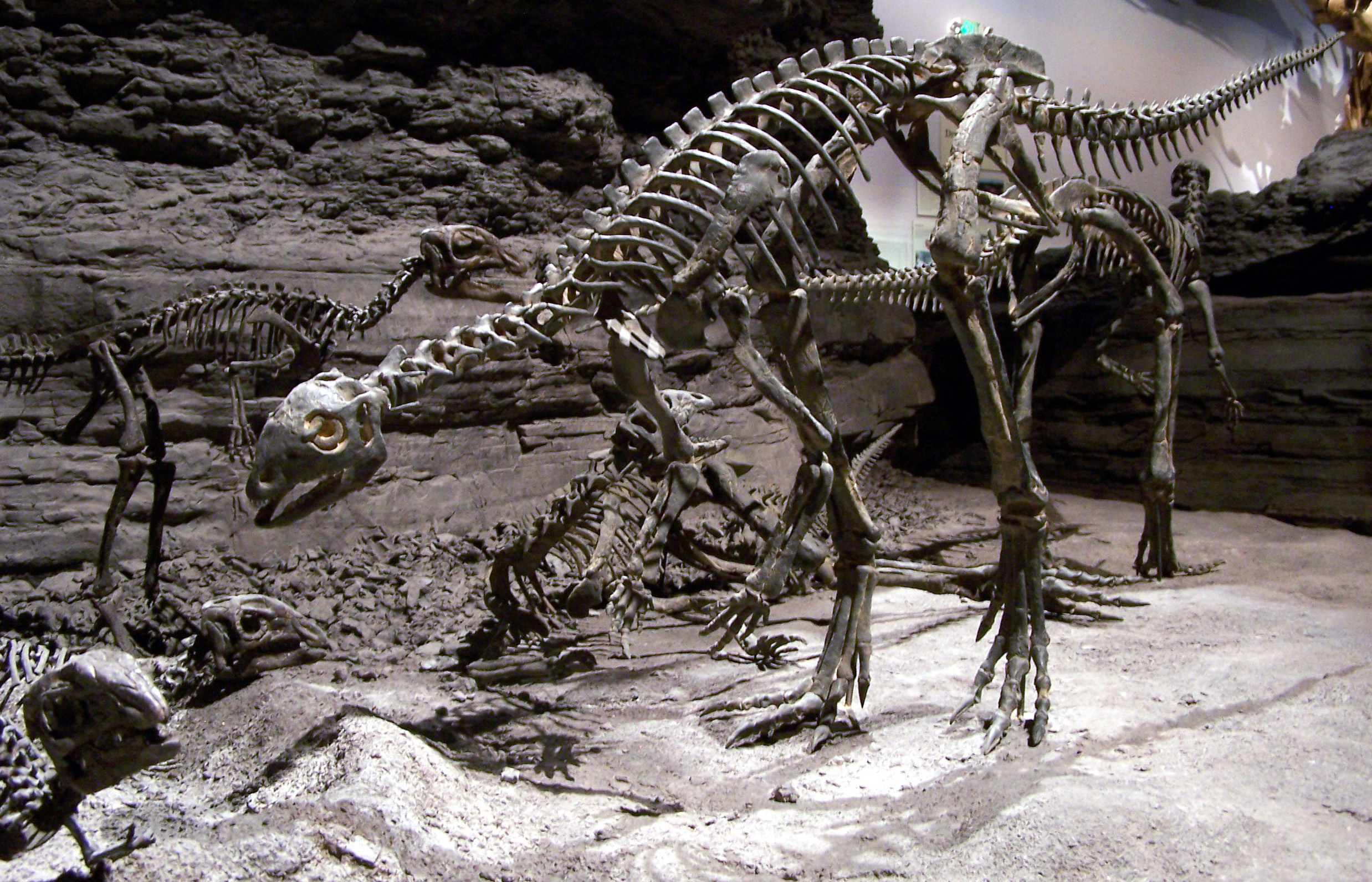 Othnielosaurus, North American Museum of Ancient Life.